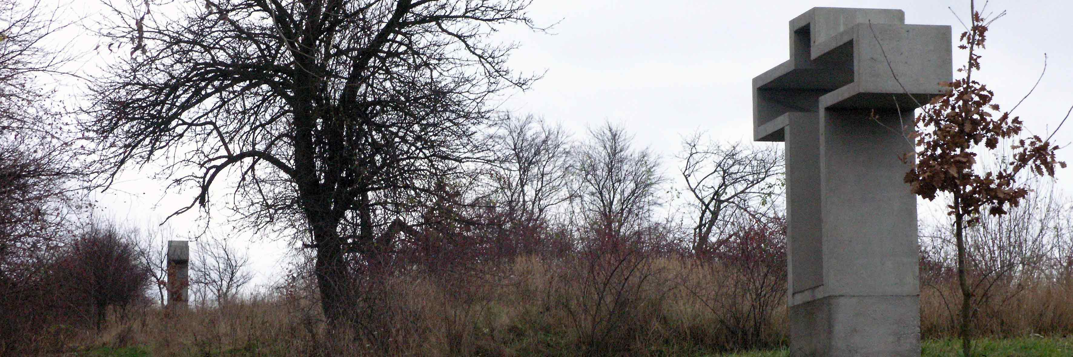 Křížová cesta, Pavla Kačírková, 2007